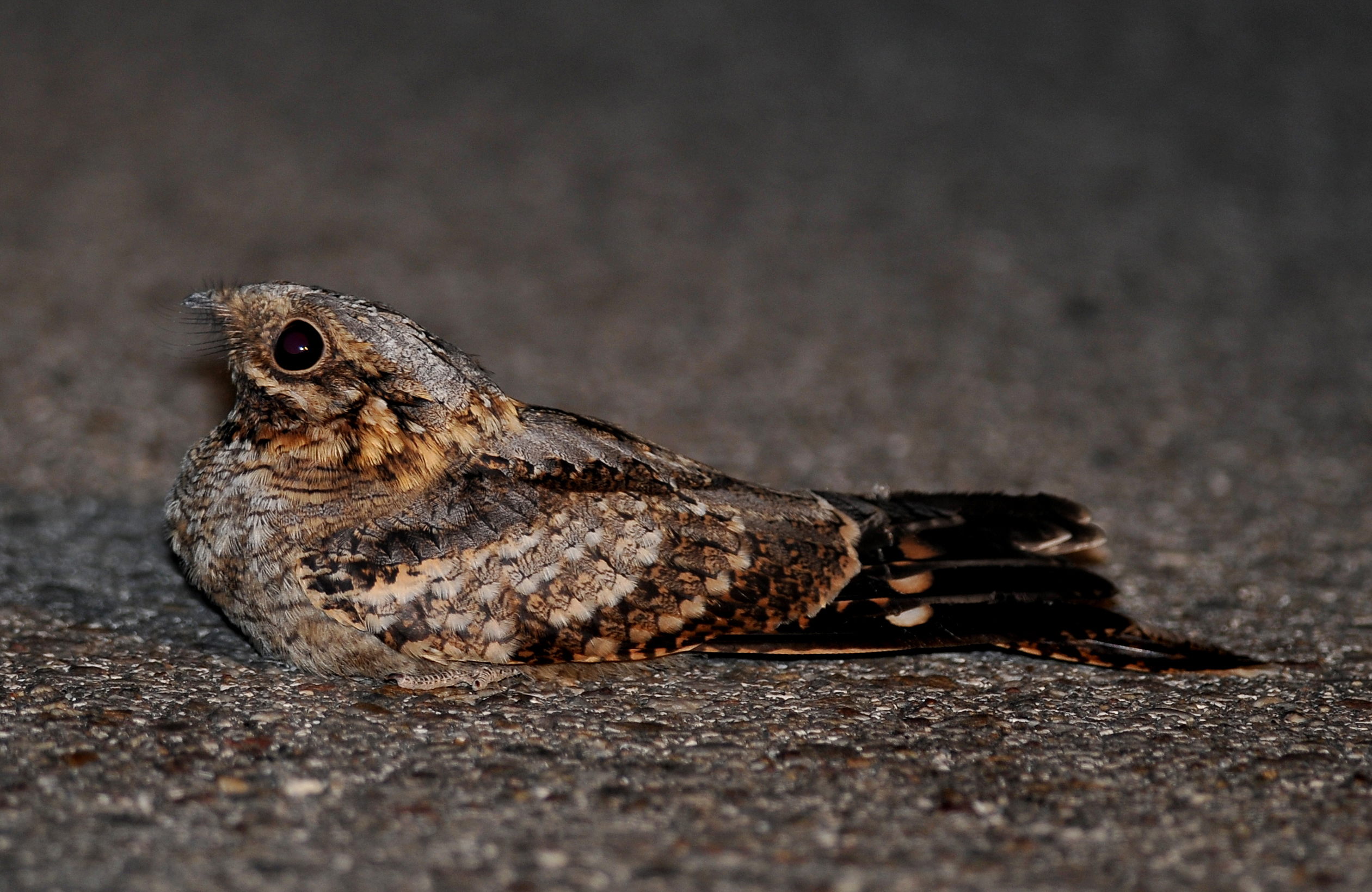 A Red-necked Nightjar in Abrantes, Portugal